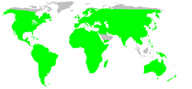 Philodromidae habitat distribution, drawn after Platnick: World Spider Catalog 7.0. This is not at all a precise rendering of the distribution! If you have better information, please replace this map, or send me the info, and i will redraw it.